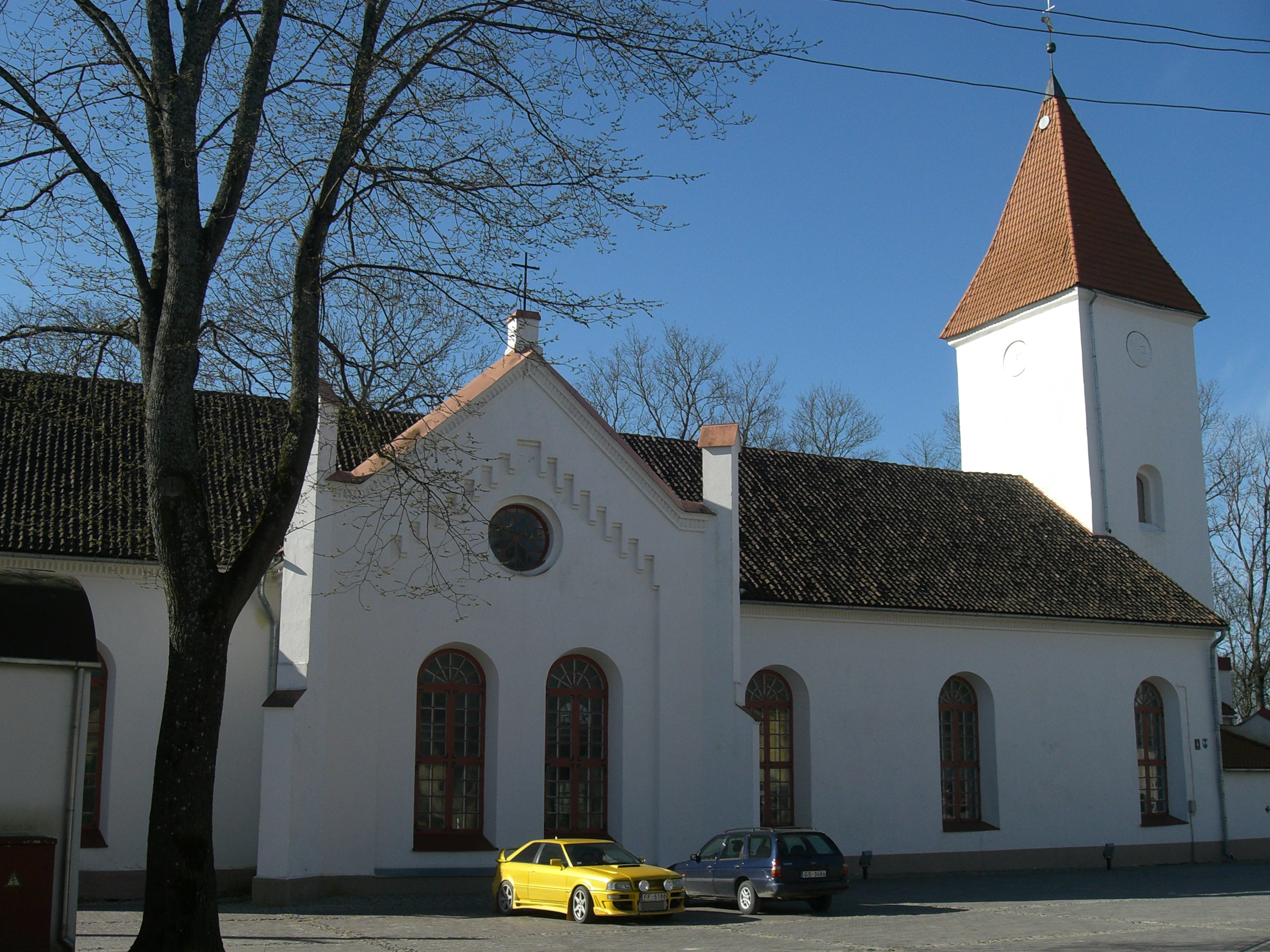 Talsi town in Latvia. Church